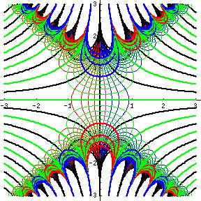 f=erf(z) in the complex z plane. Levels of integer values of Re(f) are shown with thick black lines. Level of Im(f)=0 is shown with thin green line. Negative integer values of Im(f) are shown with thick red lines. Positive integer values of Im(f) are shown with thick blue lines. Intermediate levels of Im(f)=const are shown with thin green lines. Intermediate levels of Re(f)=const are shown with thin red lines for negative values and with thin blue lines for positive values.